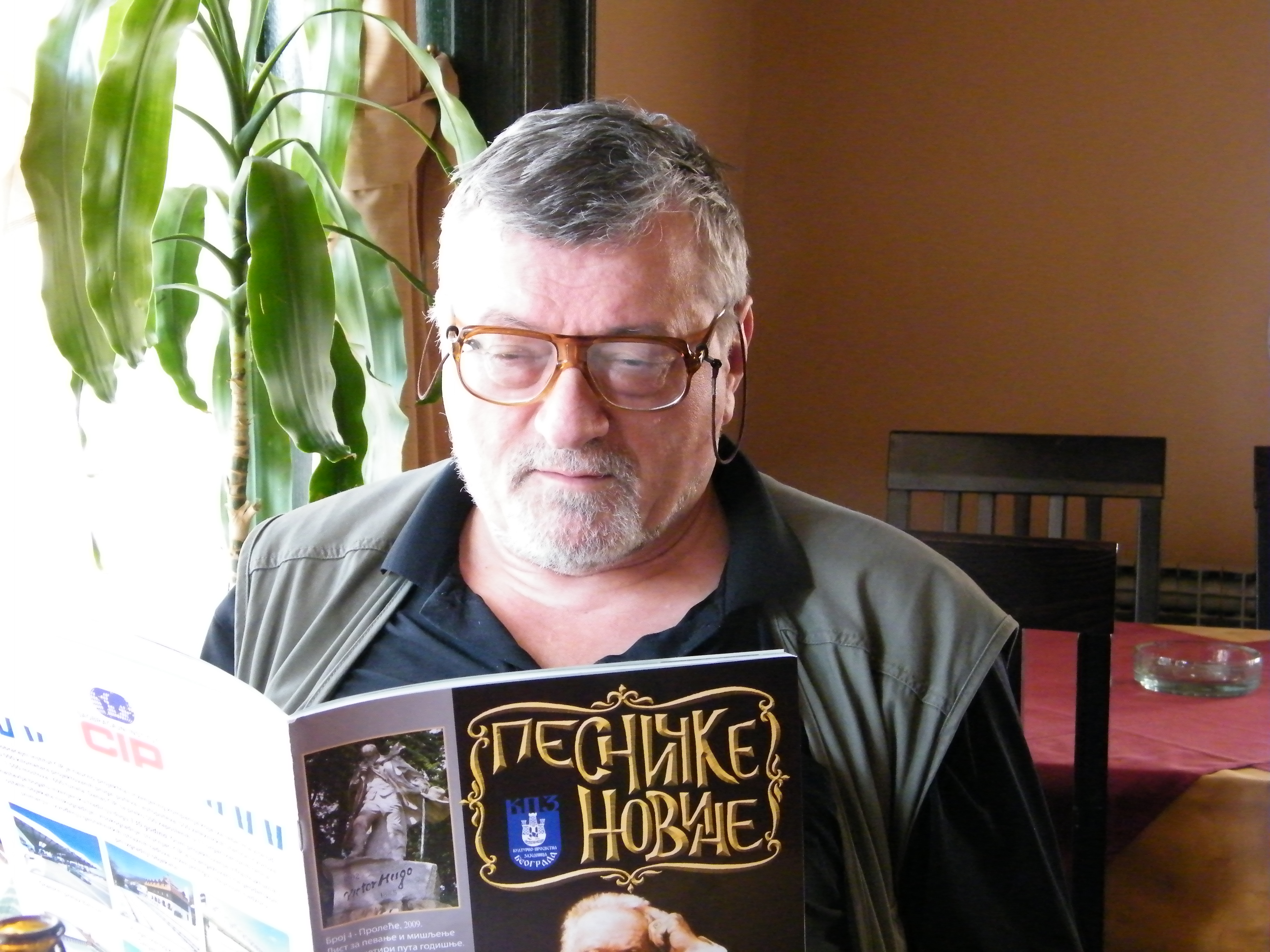 Dragan Mraović — Serb poet, translator and diplomat — reads Pesničke novine (Poet's news journal) Српски (ћирилица): Драган Мраовић, српски песник, преводилац и дипломата, чита Песничке новине Srpski (latinica): Драган Мраовић, српски песник, преводилац и дипломата, чита Песничке новине